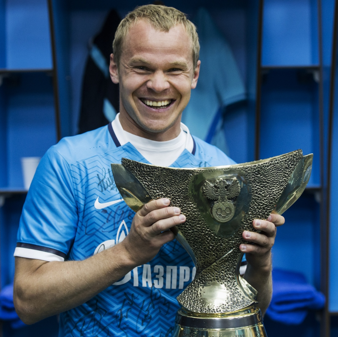 Alexandr Anyukov